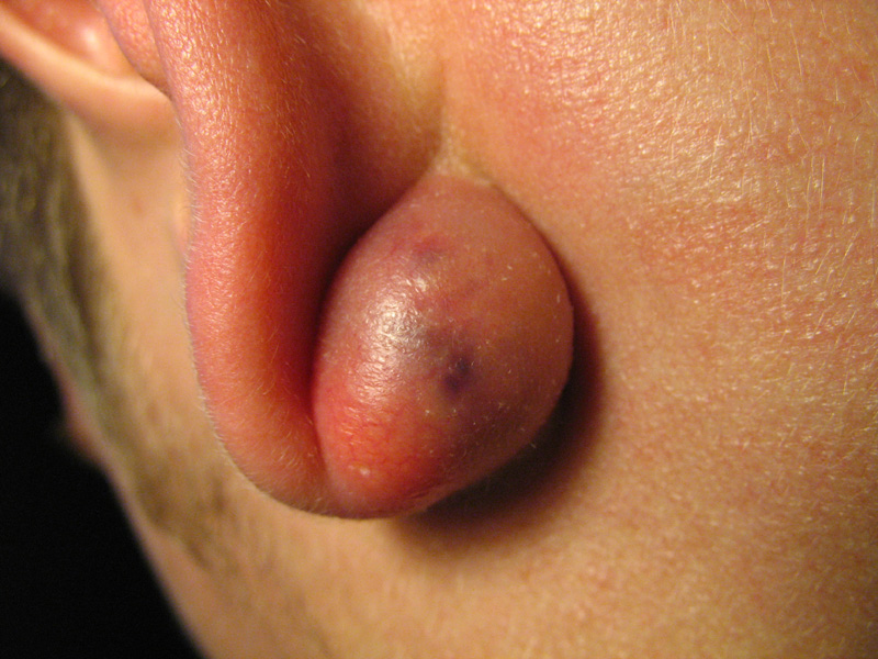 I took this image myself of my brother. We will allow it to be used anywhere by anyone.